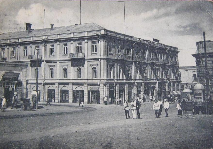 ASPS building in Baku (Kommunist Street 51). Nowadays Nizami Museum of Azerbaijan Literature is located here.